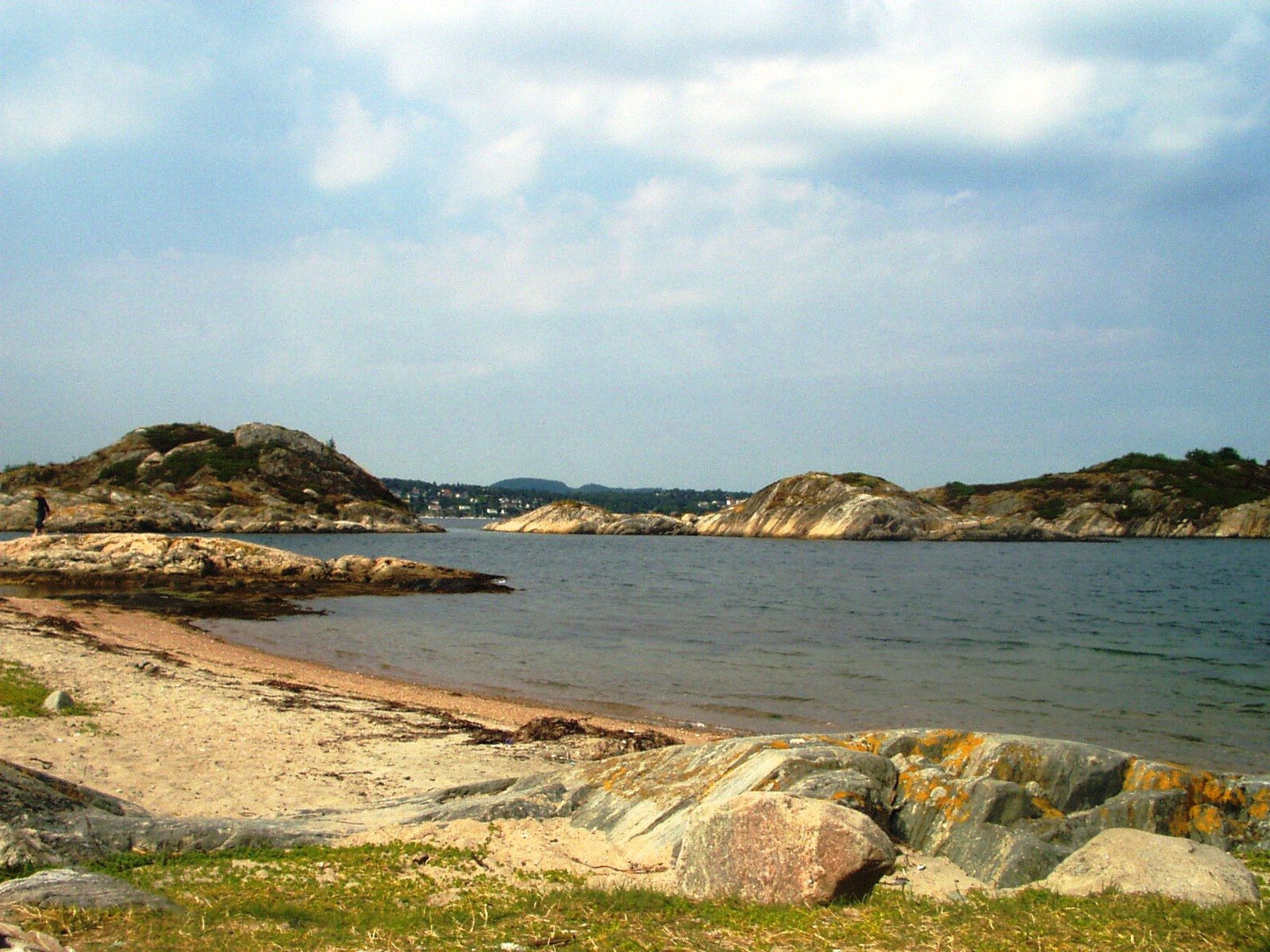 Teistholmen